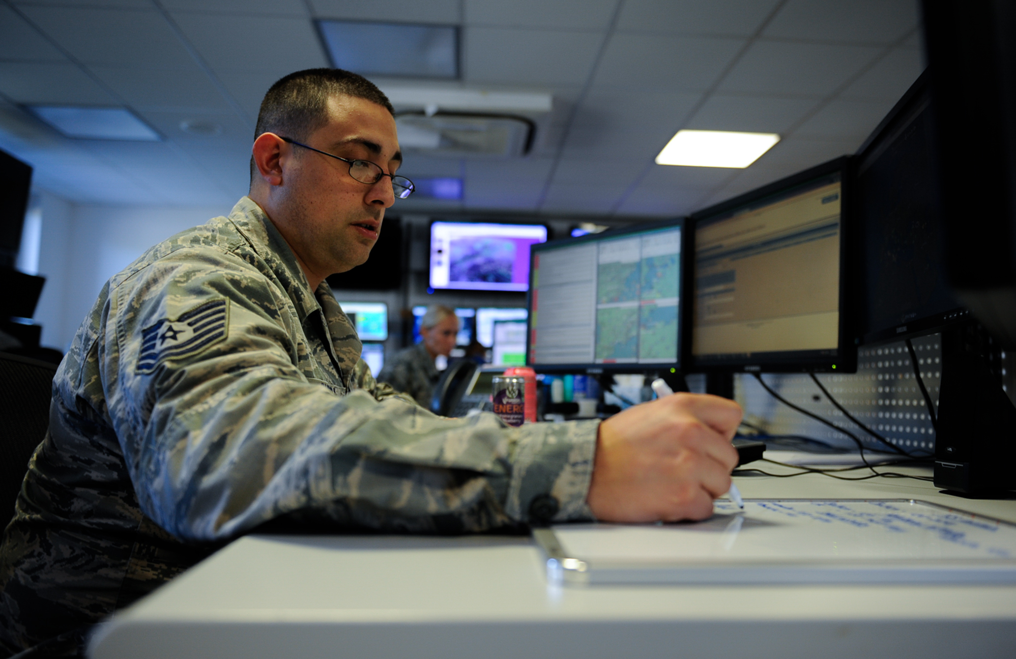 U.S. Air Force Tech Sgt. Justin Guerra, 21st Operational Weather Squadron weather craftsman, records data Sept. 28, 2016, at Ramstein Air Base, Germany. 21st OWS Airmen look for hazardous weather conditions in their area of responsibility that may deter pilots from flying. Airmen are also constantly checking current weather to ensure their accuracy. (U.S. Air Force photo by Airman 1st Class Savannah L. Waters) Unit: 86th Airlift Wing DVIDS Tags: WEATHER; Airman; USAF; 21st OWS; 557th Weather Wing; weather craftsman